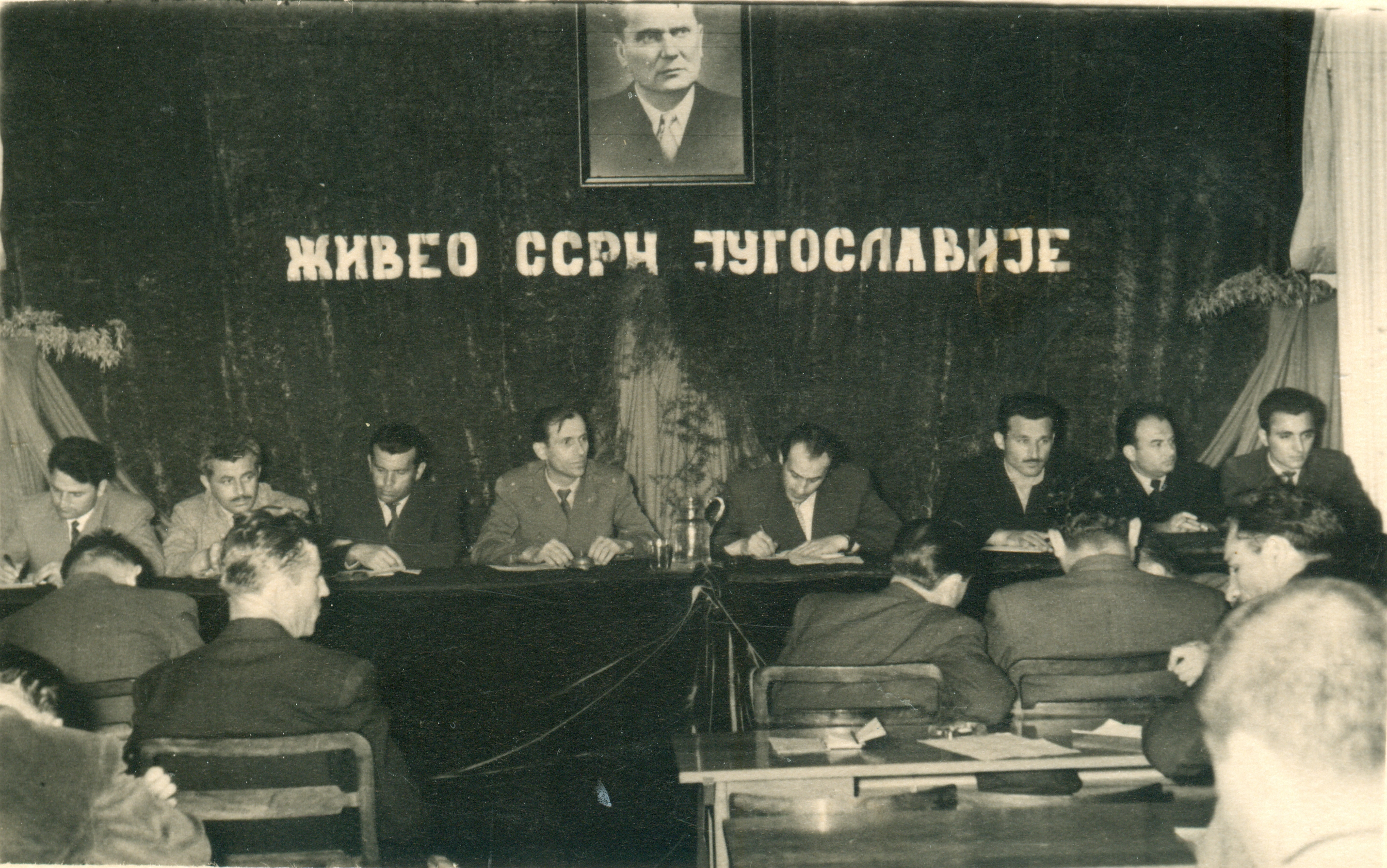 Meeting of the surviving partisans of the IX Brigade of the 23rd Serbian Division in Knjazevac Srpski (latinica): Susret preživelih boraca IX brigade 23. Srpske divizije u Knjaževcu